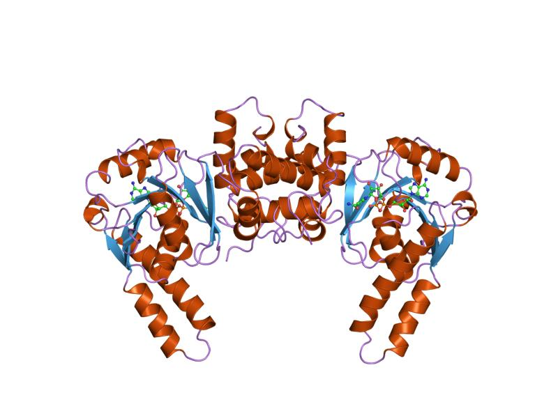 Cartoon representation of the molecular structure of protein registered with 3had code.